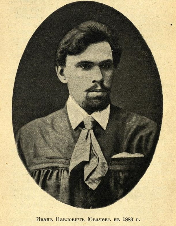 Ivan Pavlovich Yuvachev (1860 - 1940) in 1883